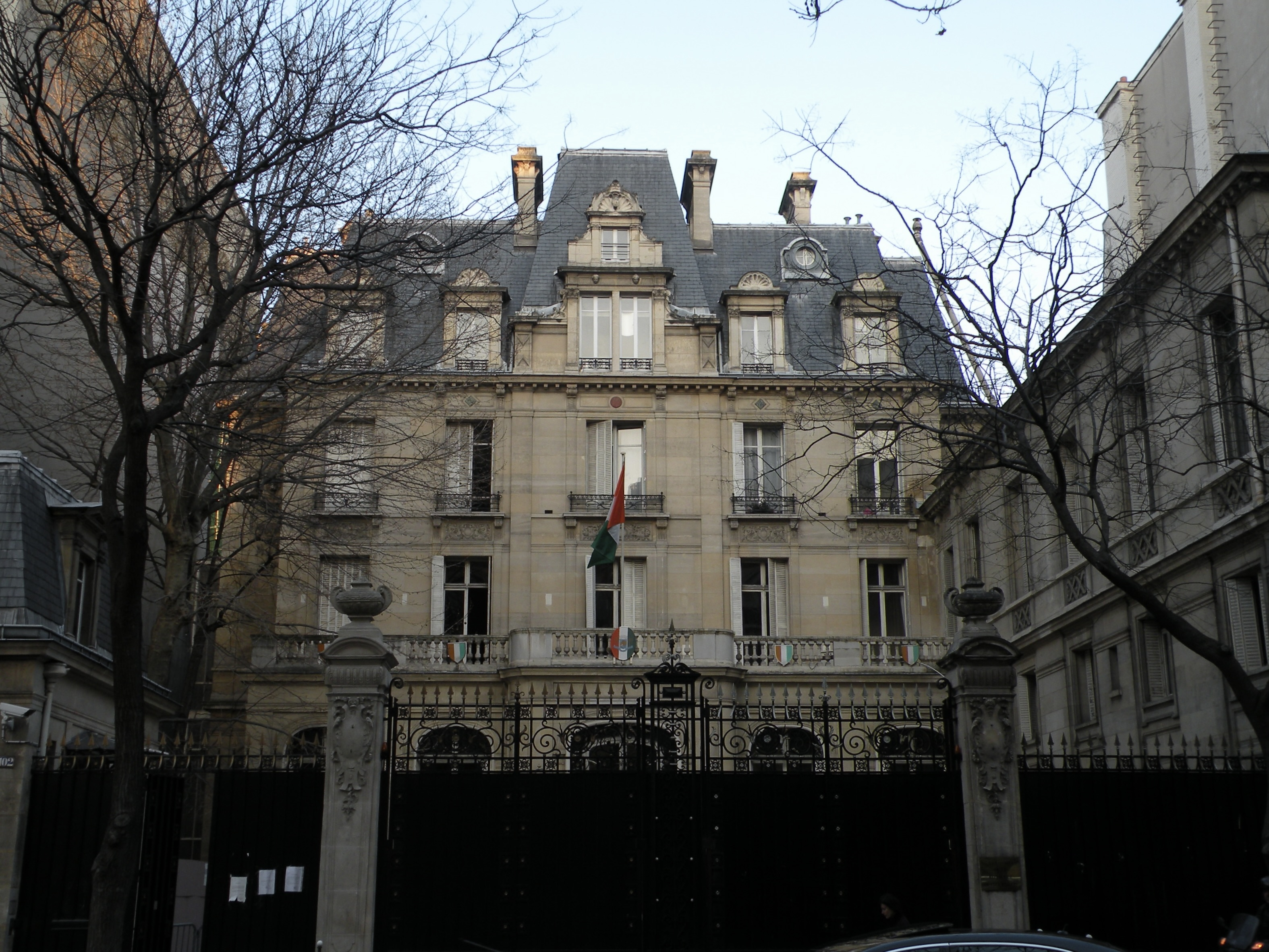 Ivoirian embassy in France, Paris